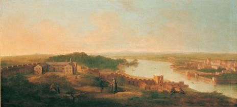 View of Drogheda from Millmount, oil-on-canvas, 28 x 60 inches. Both these pictures are in Highlanes Municipal Art Gallery, Drogheda, County Louth, Republic of Ireland.